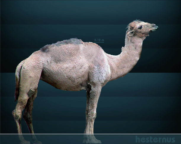 Illustration of the extinct Camelus hesternus from North America